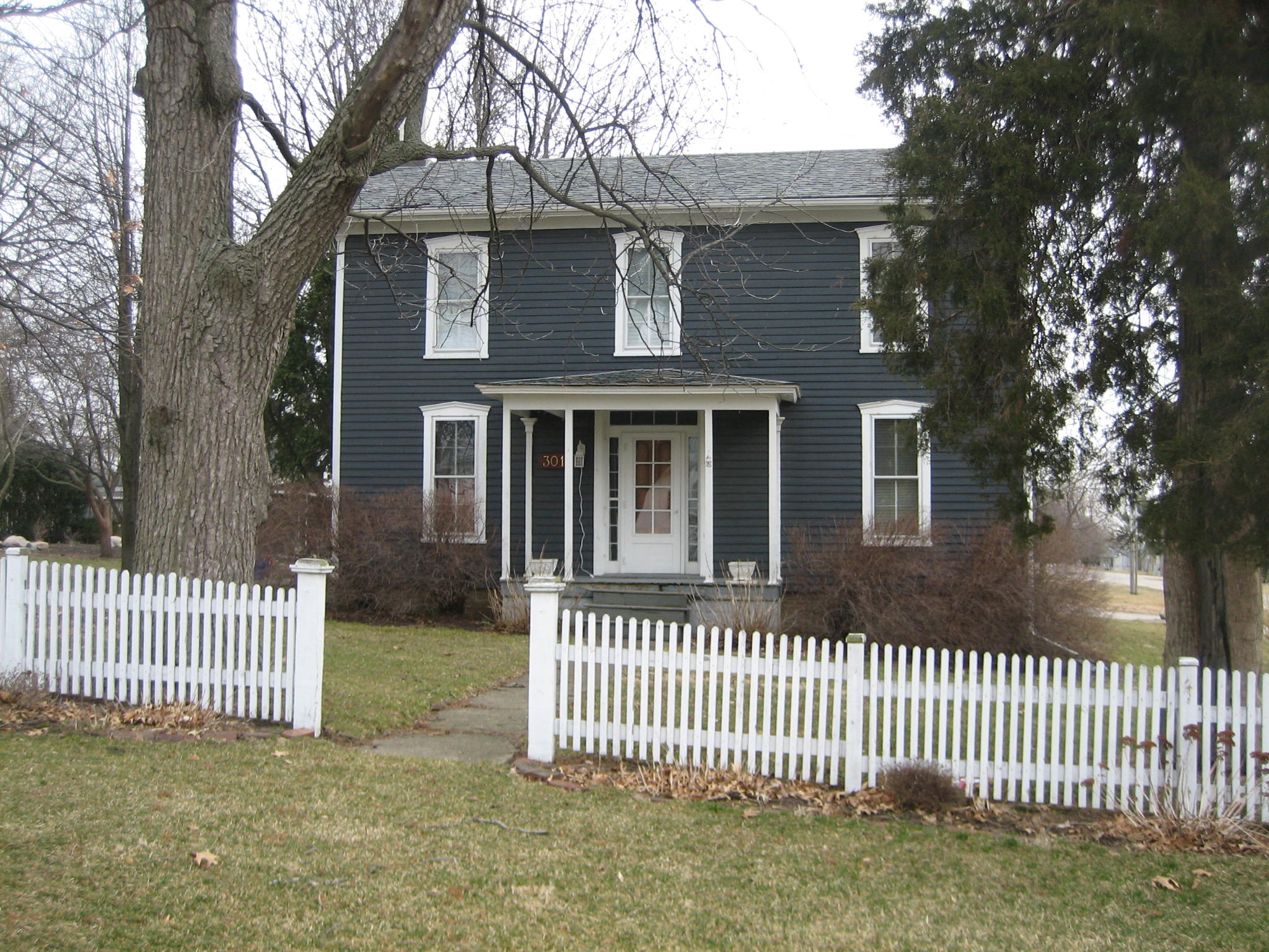 Hubbard House, Hudson, Illinois, United States. U.S. National Register of Historic Places.